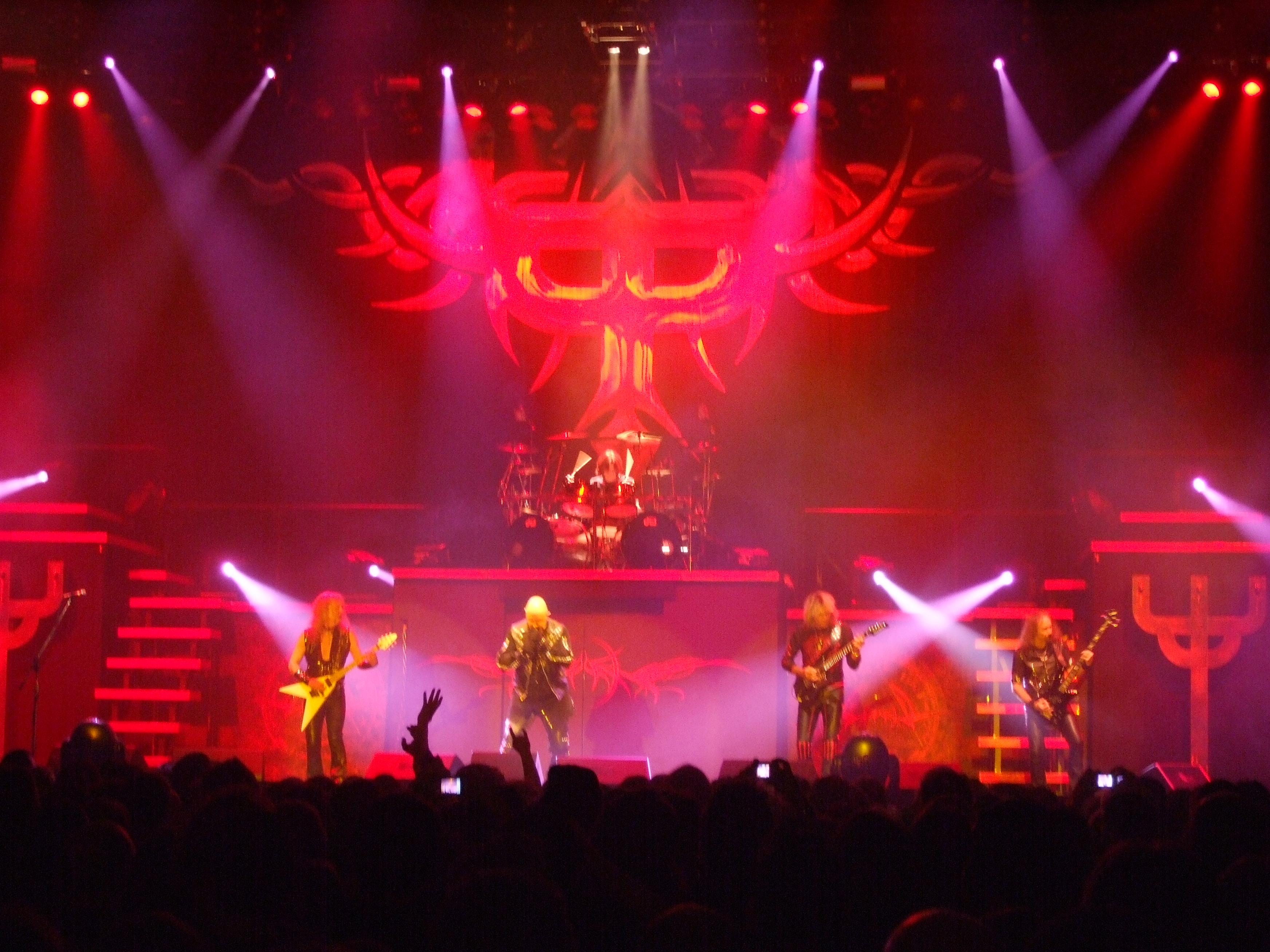 Judas Priest performing at the Sheffield Arena in February 2009